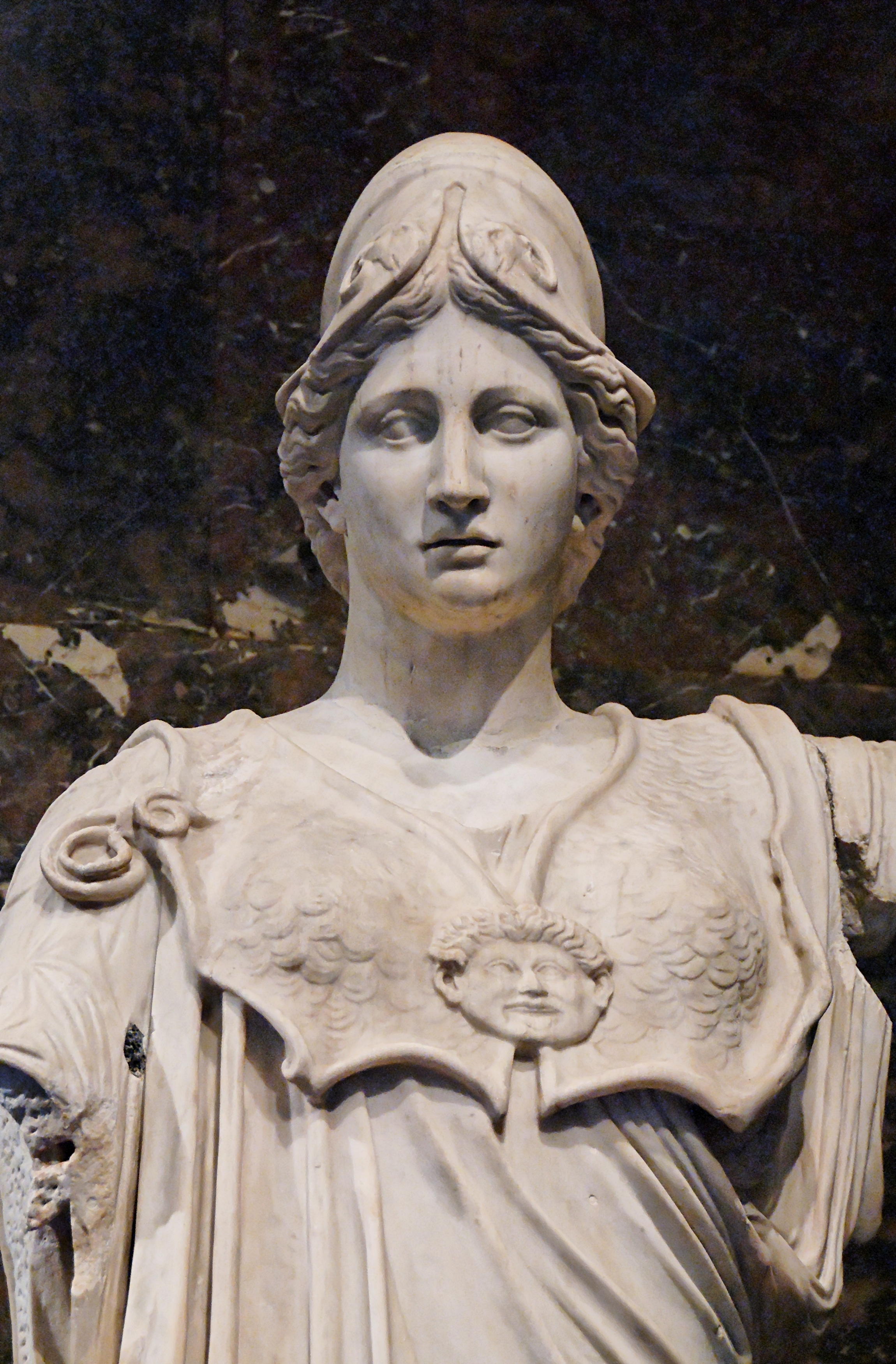 Athena of the Hope-Farnese type. Marble, Roman copy from the 1st–2nd centuries AD after a Greek original, probably the late 5th century BC bronze cult-statue of Athena Itonia (near Koroneia) by Agoracritos, described by Pausanias (IX, 34, 1). The antique head, of the Mattei type, does not belong to the statue.